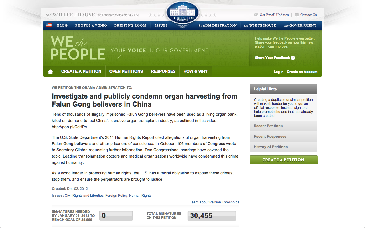 WE PETITION THE OBAMA ADMINISTRATION TO:Investigate and publicly condemn organ harvesting from Falun Gong believers in China. Launched on 2012-Dec-2, by Arthur Caplan.